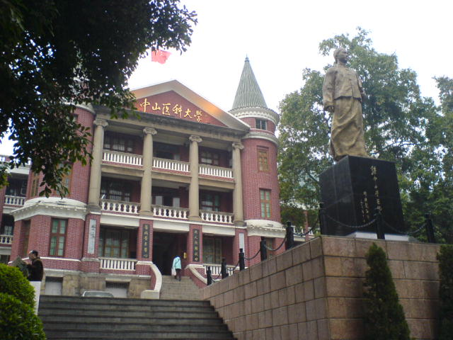 The main entrance of the Sun Yat-sen University of Medical Sciences(now Zhongshan School of Medicine, Sun Yat-sen University), Canton, China.